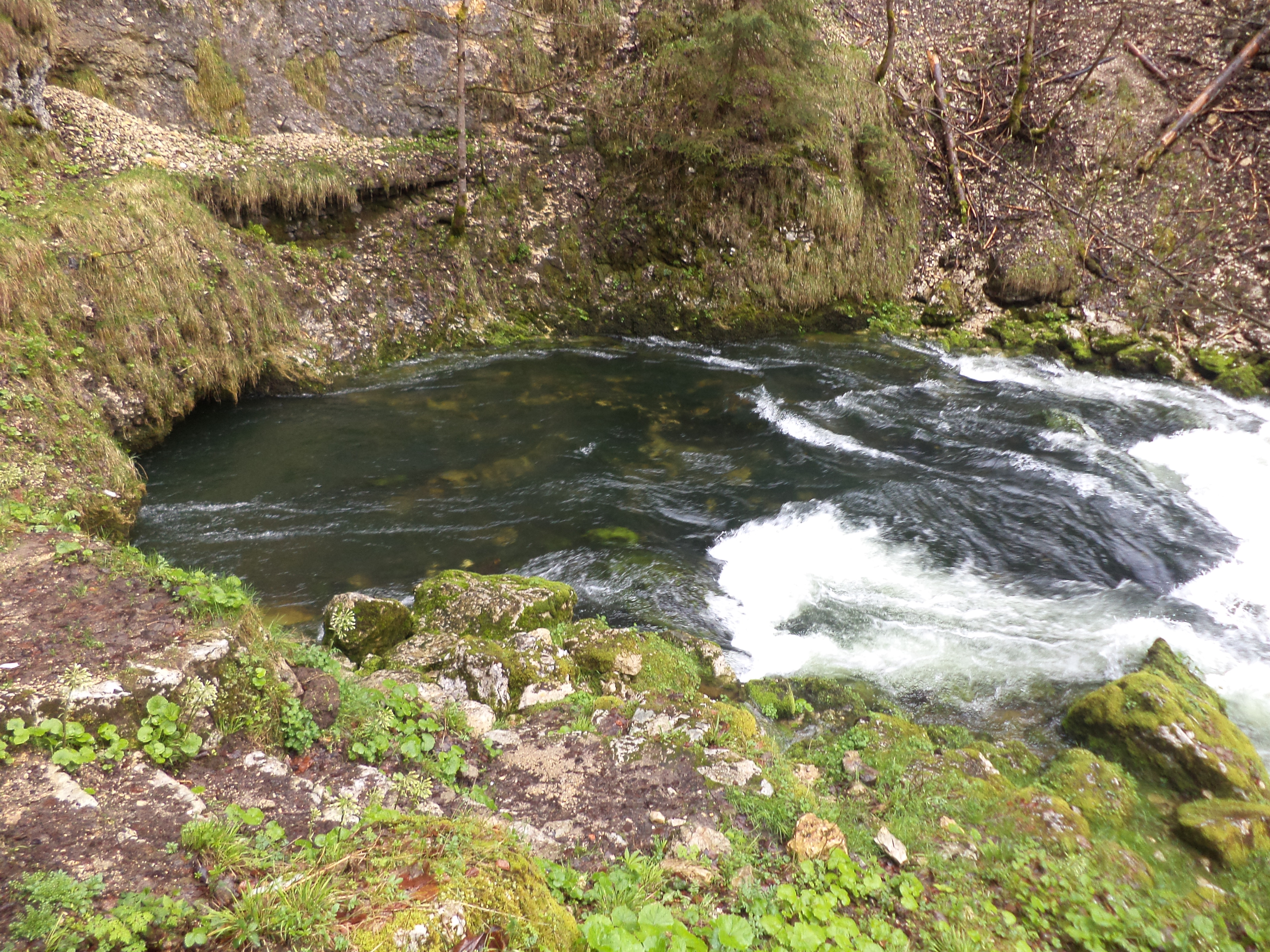 The source of the river Orbe in the Swiss Jura